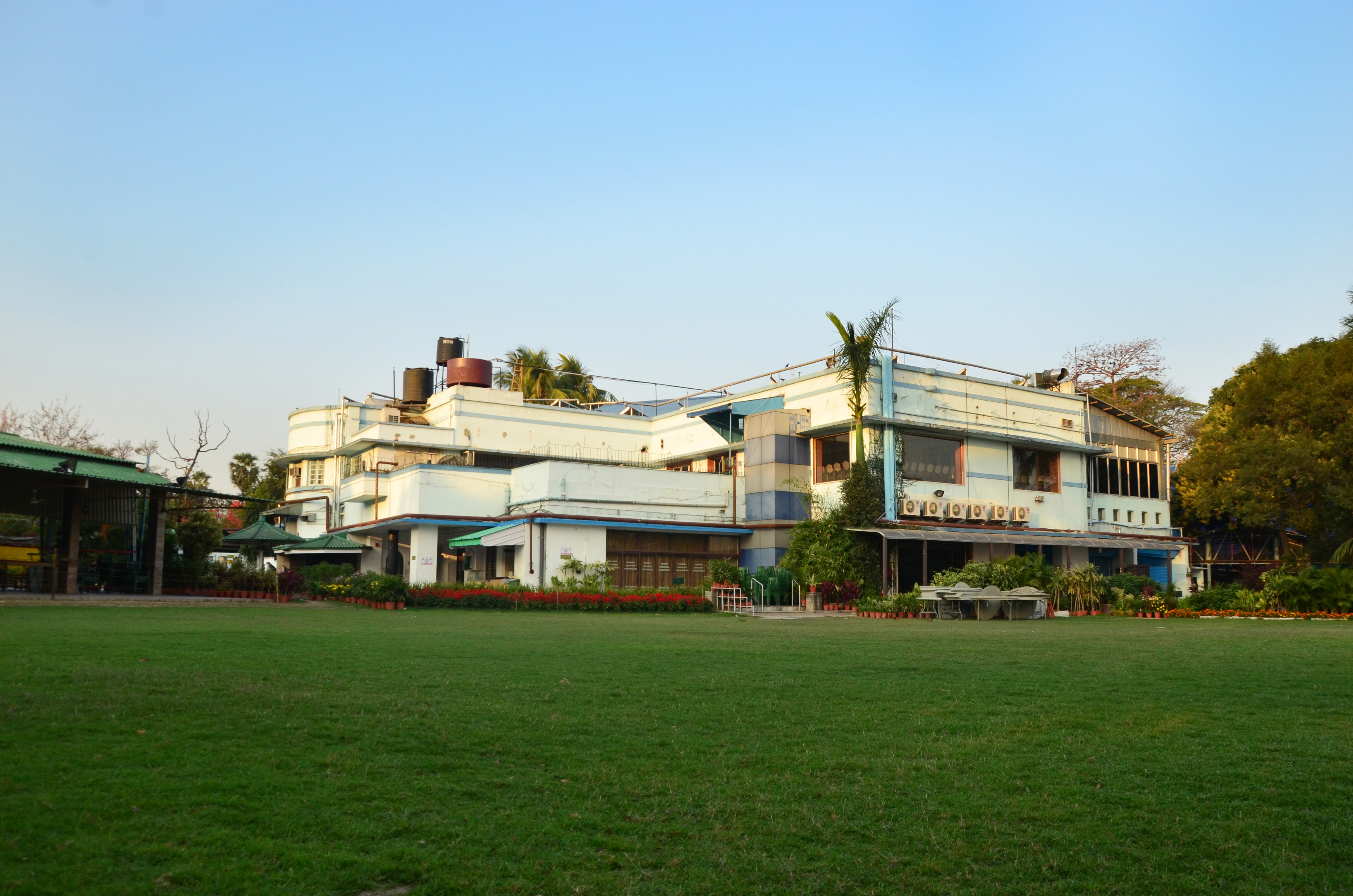 BRC building